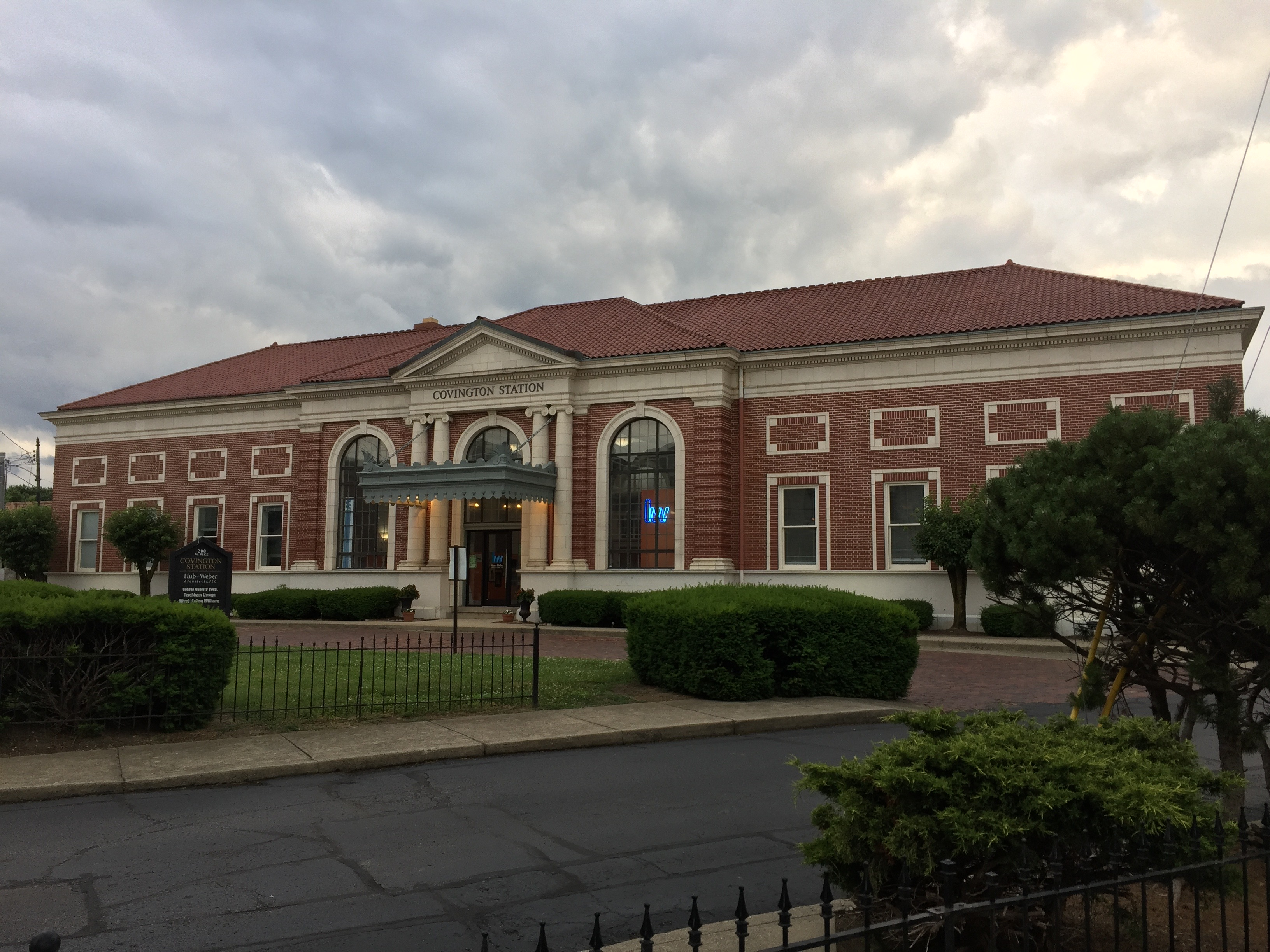 Former railway station in Covington, Kentucky in 2018